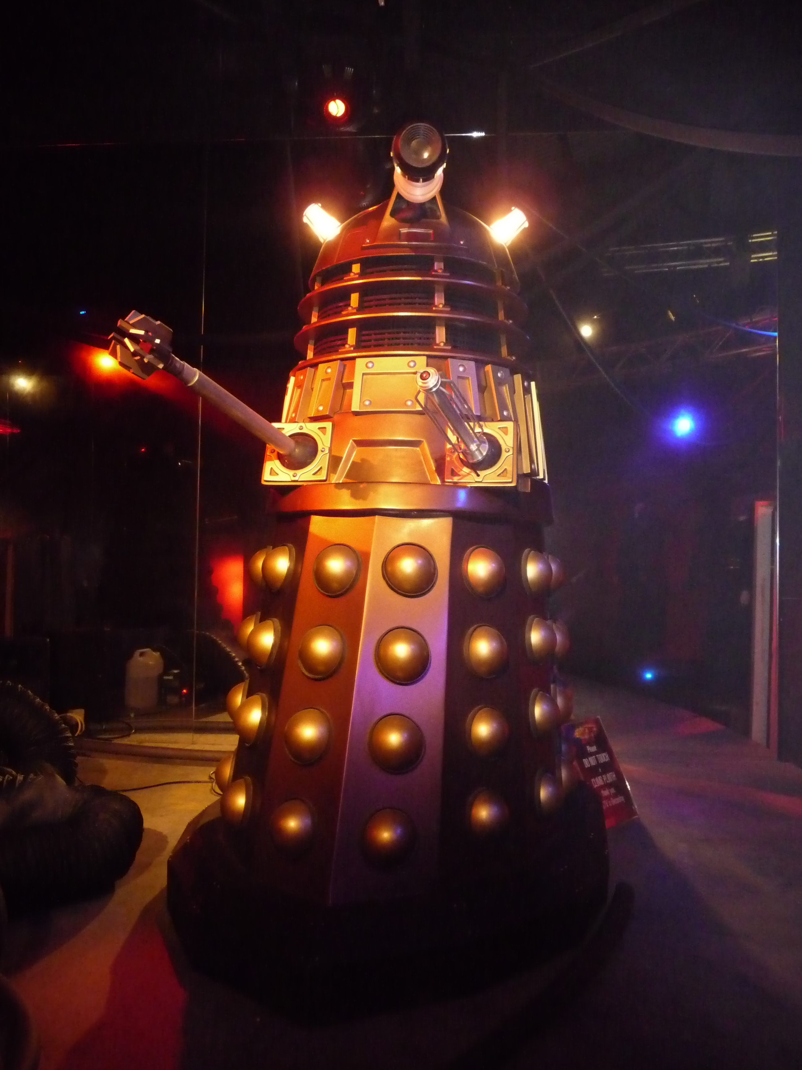 A Dalek at the 2010 Dr Who exhibition in Cardiff